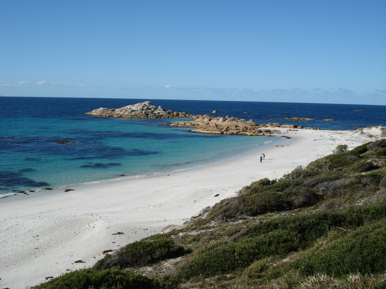 This beach is located at Stumpy's Bay in Mount William National Park in Tasmania, Australia. The park is quite remote, only accessible after a 2 hr drive from the nearest village. The black patches in the sea are submerged rocks and seaweed.